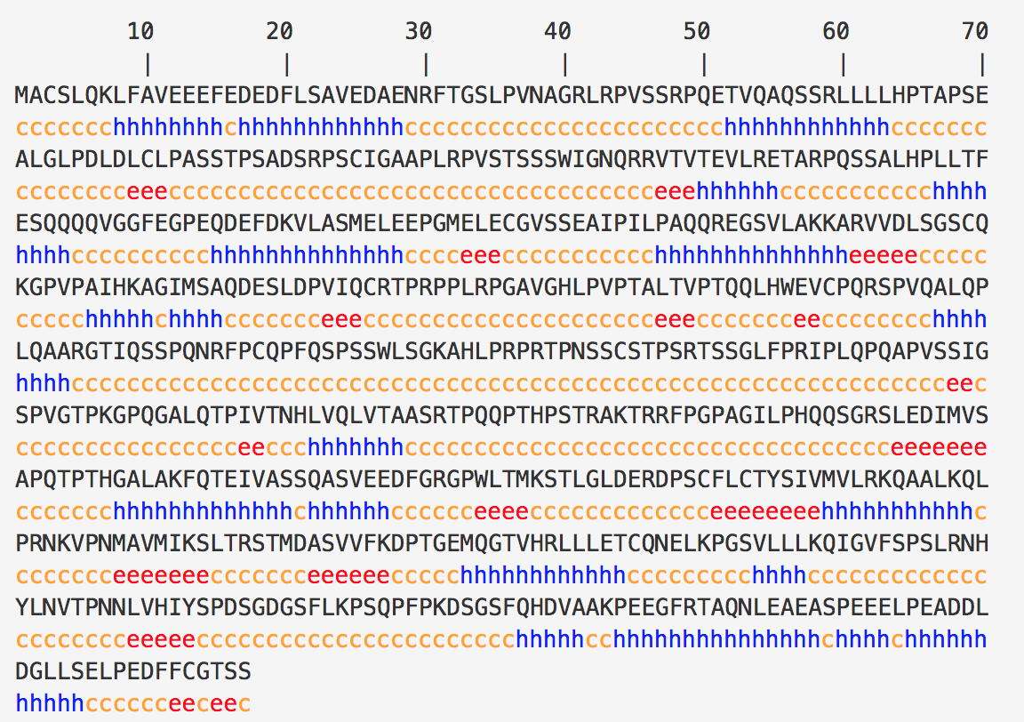 This figure denotes the secondary structure of c17orf53